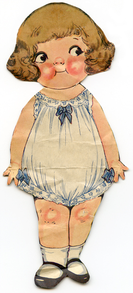 Paper doll "Dolly Dingle" appeared in "Dolly Dingle and The Stories of Mrs. Mousie and Bumpty" Pictorial Review April 1922